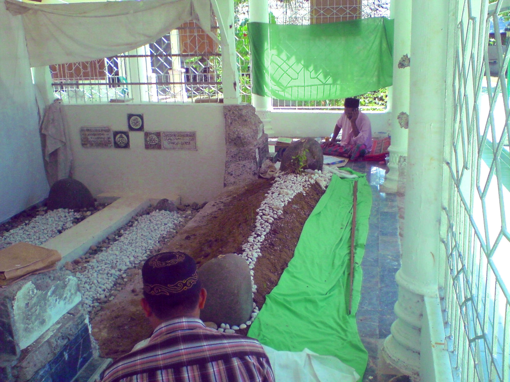 Hasan Tiro's grave